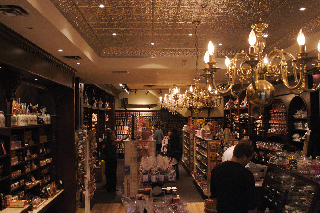 A picture of a candy store.